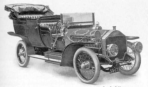 Napier Type 37 60hp car from the 1907 catalogue